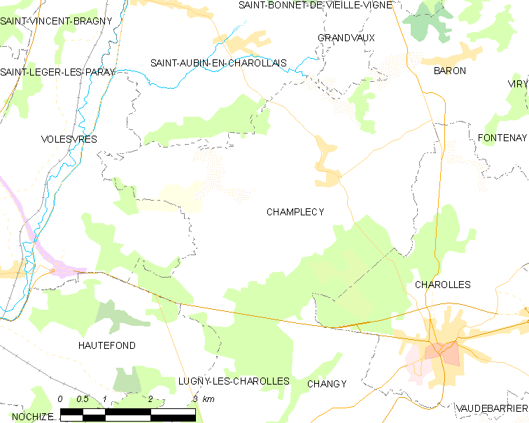 Map of French municipality